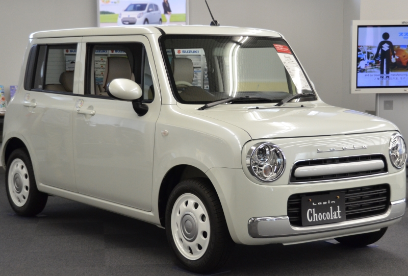 Suzuki Alto Lapin Chocolat